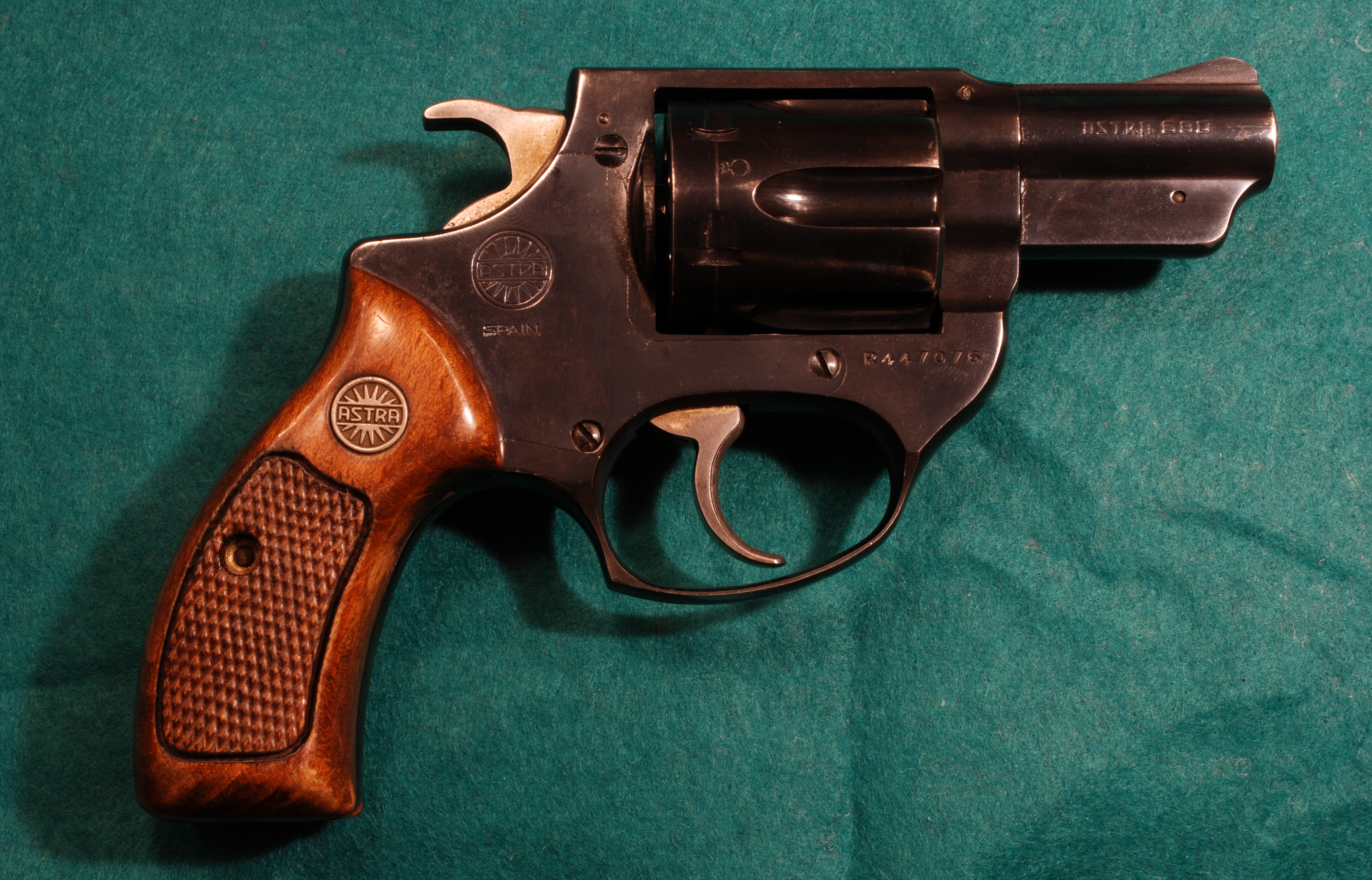 Picture of Astra 680 revolver cal. .38 Special